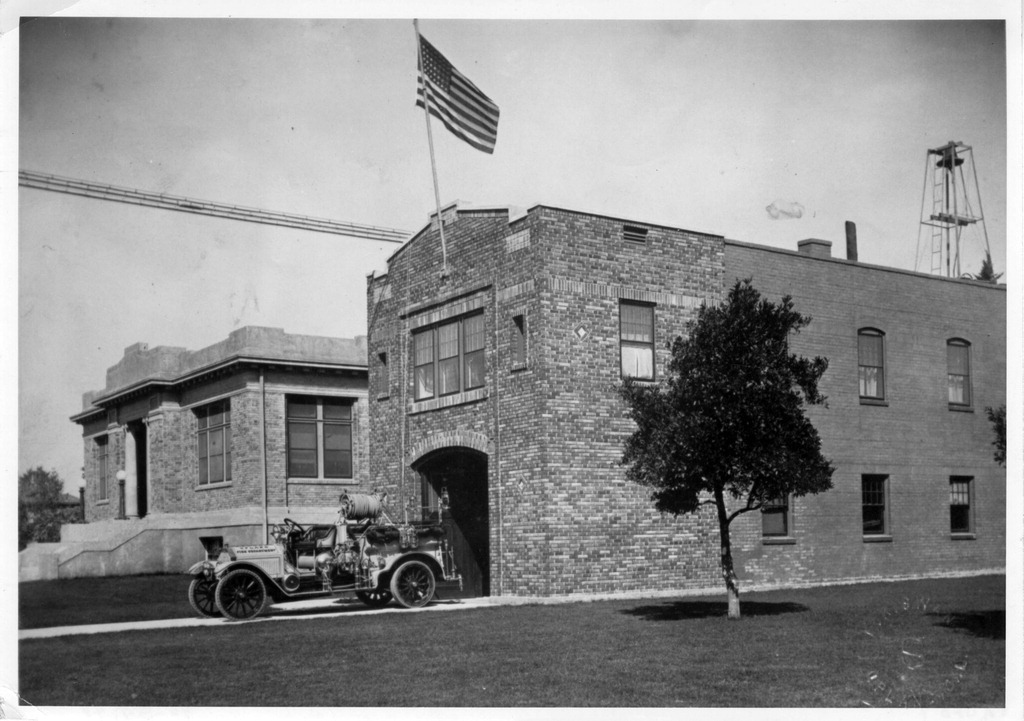 View is looking northwest from corner of 2nd Avenue and D Street, Upland (Calif.). The view shows both the Upland Fire Department and the Upland Public Library (Carnegie). This fire department building is located at 159 East D Street and the library building is located at 123 East D Street, Upland (Calif.).